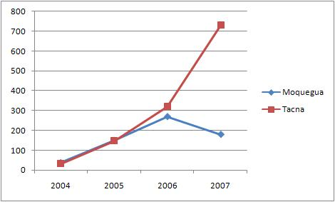 Figure on repartition of mining royalties between Tacna and Moquegua Region.